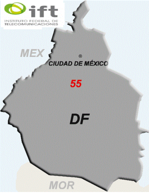 Area Code Maps for the Mexican State of Mexico City